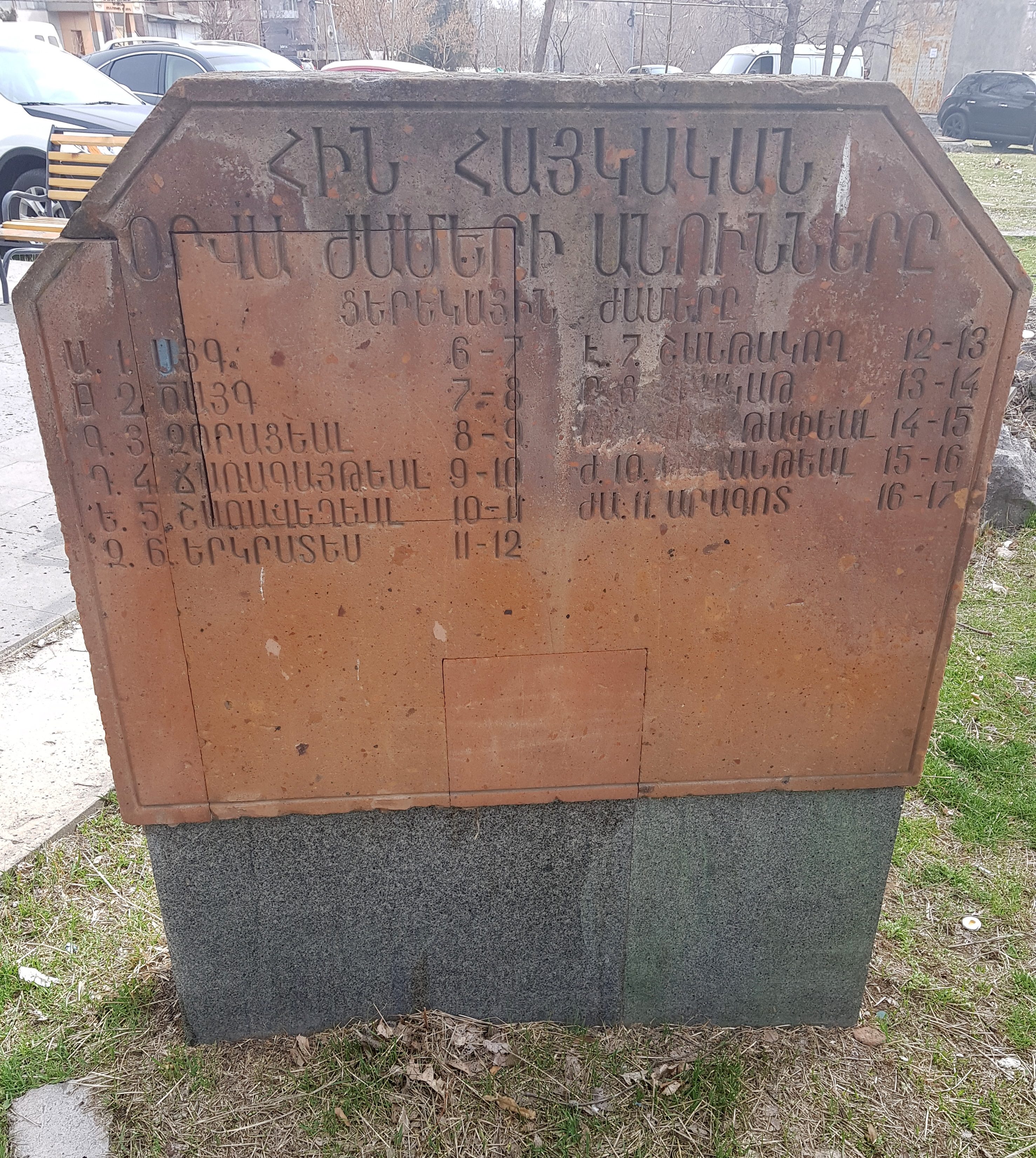 Monument to Old Armenian Calendar